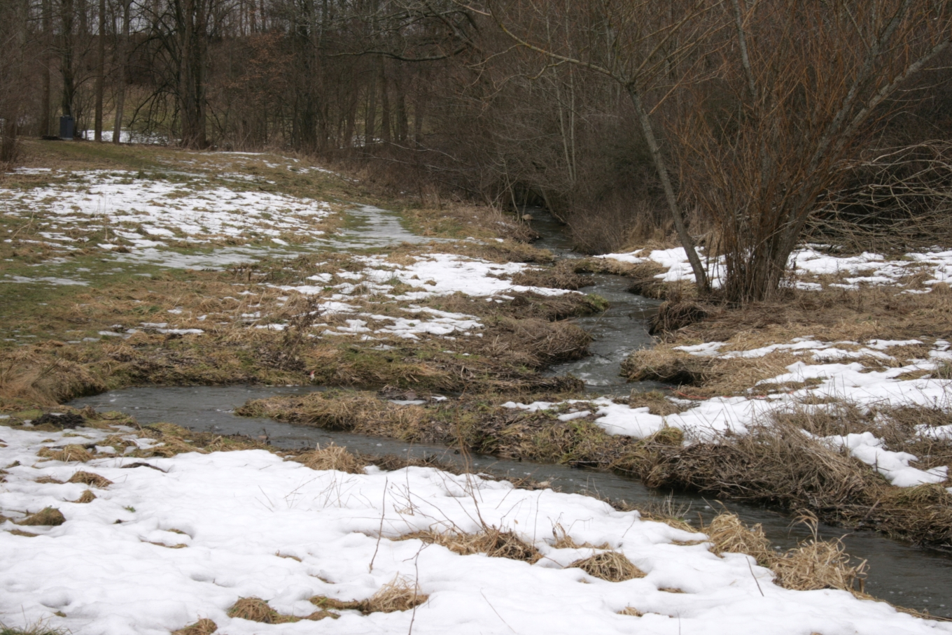 The small watercourse, "Hovedgrøften", near its mouth into river Giber Å north of Beder, Denmark.